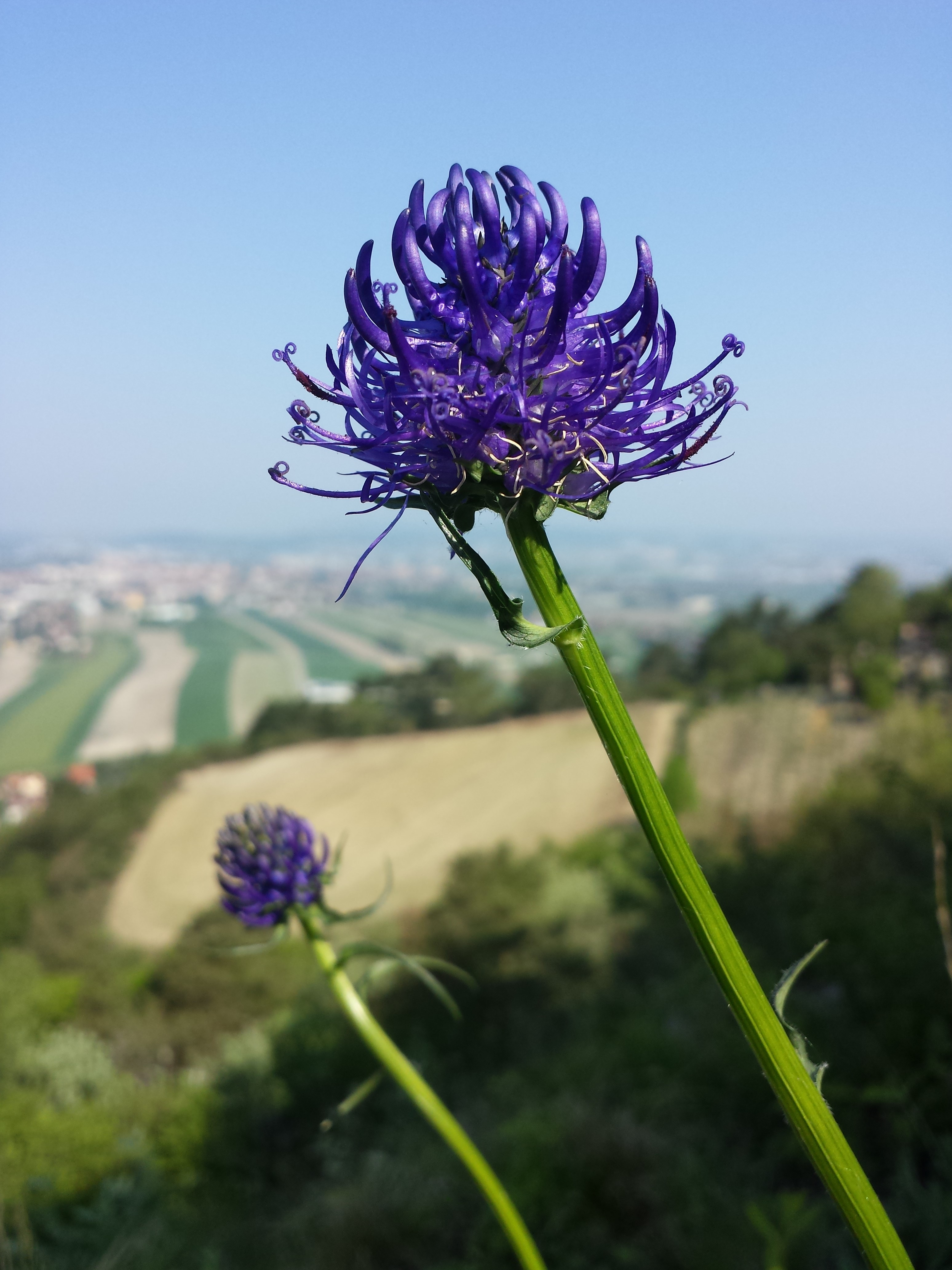 Florescence (capitulum) Taxon: Phyteuma orbiculare (sensu Fischer et al. EfÖLS 2008 ISBN 978-3-85474-187-9) Location: west slope of Bisamberg, district Korneuburg, Lower Austria - ca. 300 m a.s.l. Habitat: steppe over Flysch at the border of a forest of Pinus sylvestris